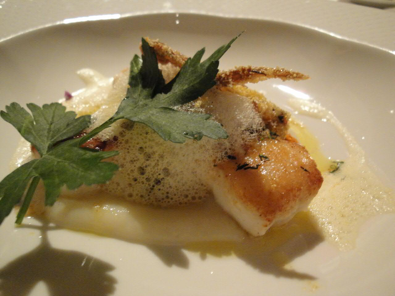 Parmesan foam on a dinner entree at a restaurant in Bali.